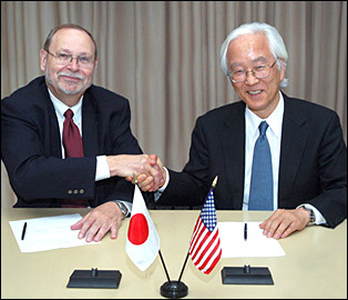 Dennis Kovar, Acting Associate Director of Science for High Energy Physics, Department of Energy, and Fumihiko Takasaki, Director of the Institute of Particle and Nuclear Studies, attended the "30th Meeting of the U.S. / Japan Committee for Cooperation in the Field of High Energy Physics" at the Brookhaven National Laboratory in Brookhaven Town, Suffolk County, New York State on June 12 and 13, 2008.